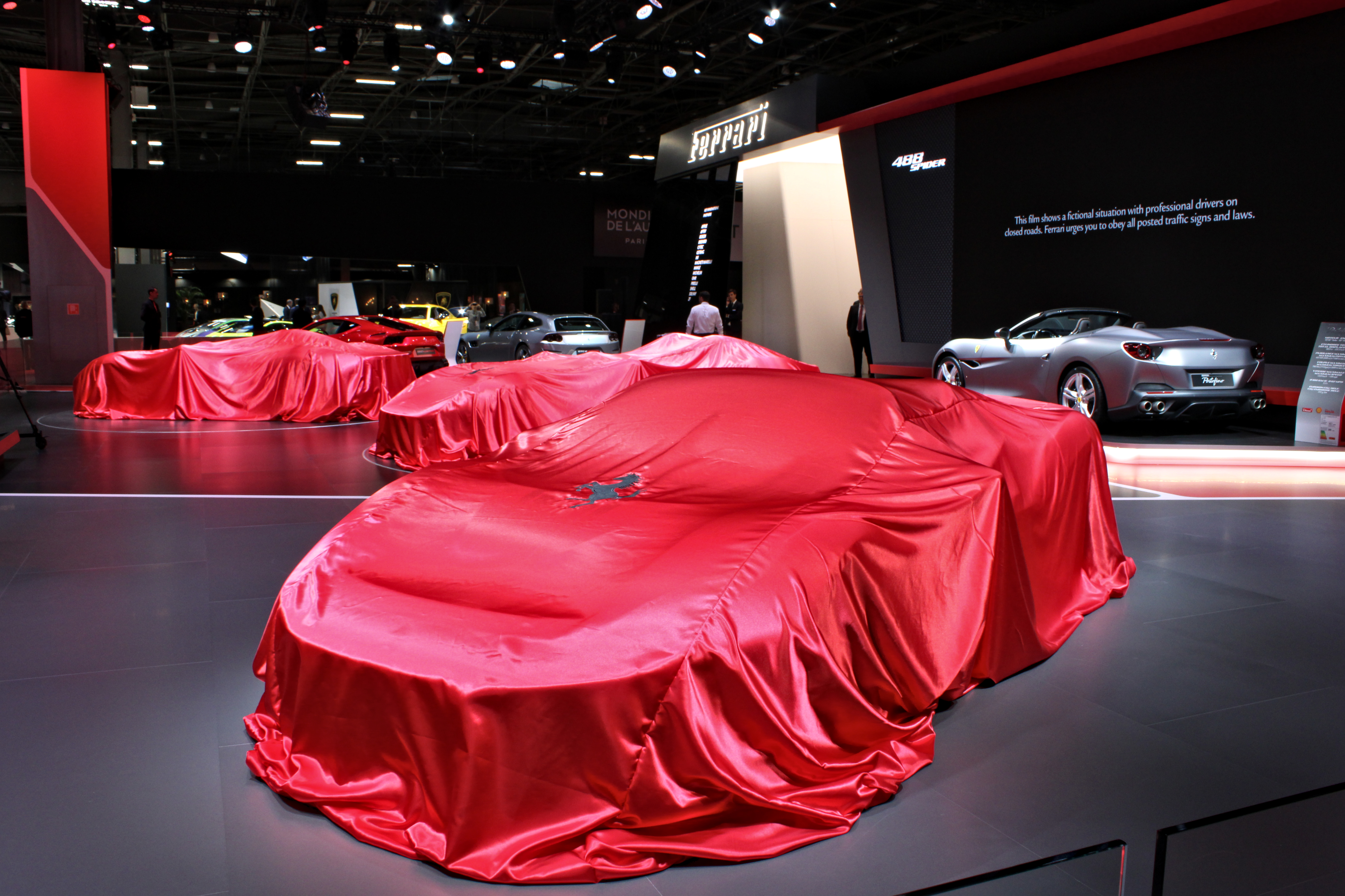 Ferrari at Paris Motor Show 2018